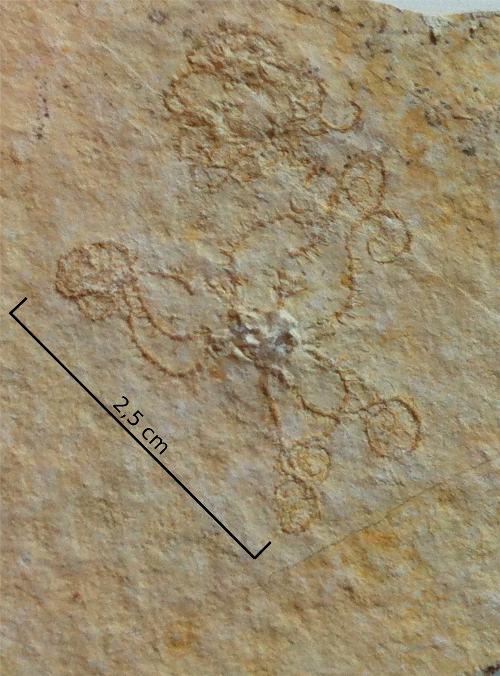 Two specimen of crinoid Saccocoma tenella. Late Jurassic, Tithonium (est. 150 mya age). Solnhofen limestone, Eichstätt.